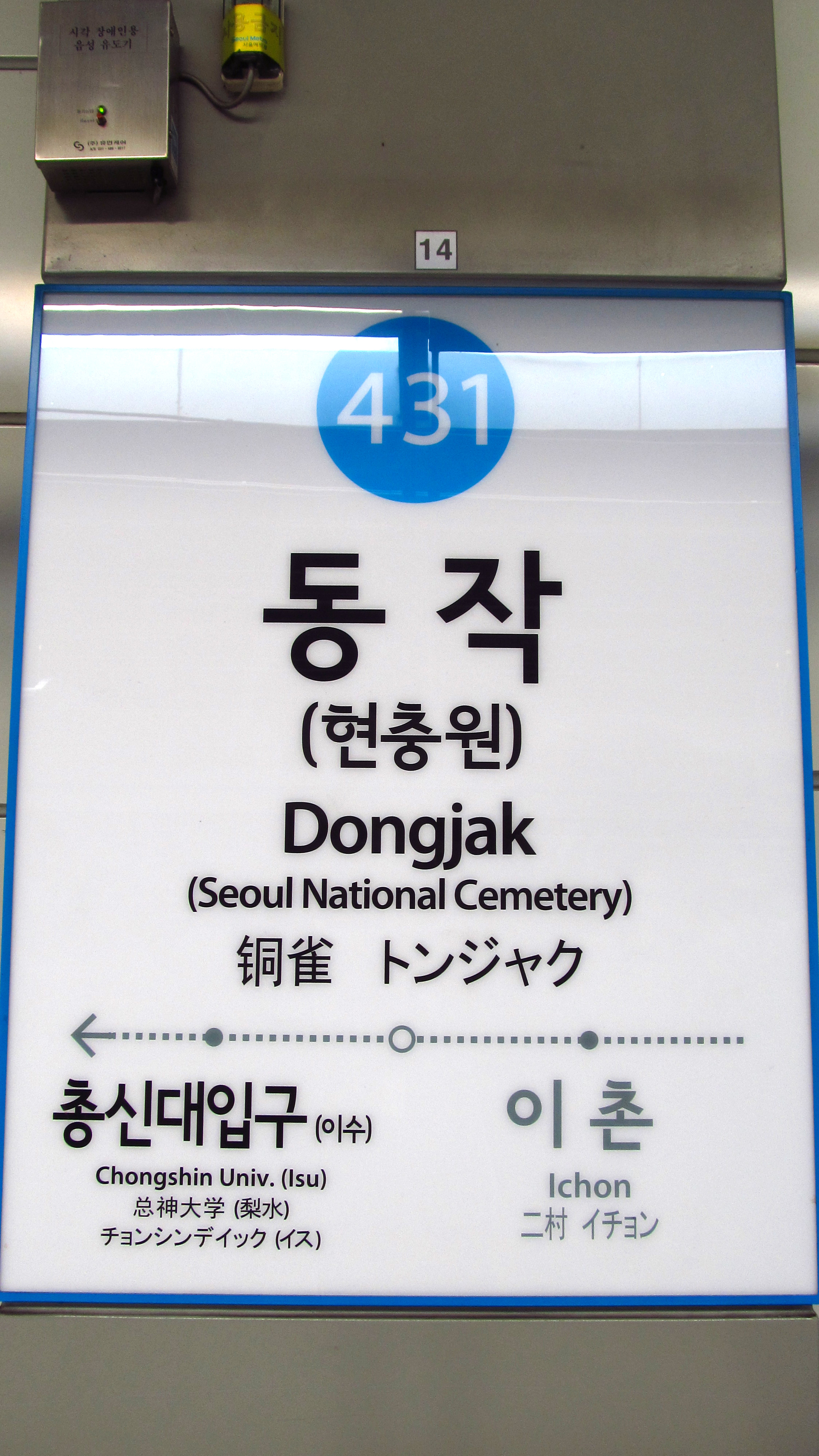 A sign of Dongjak Station on Seoul Subway Line 4